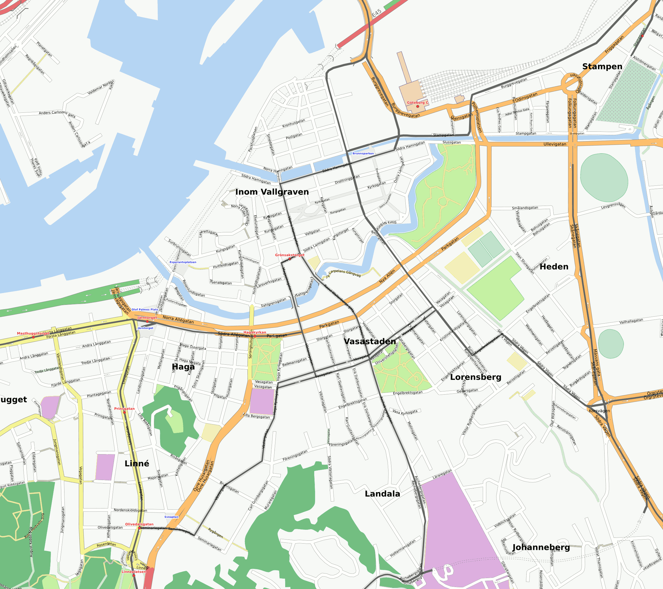 Map of downtown Göteborg = Göteborg